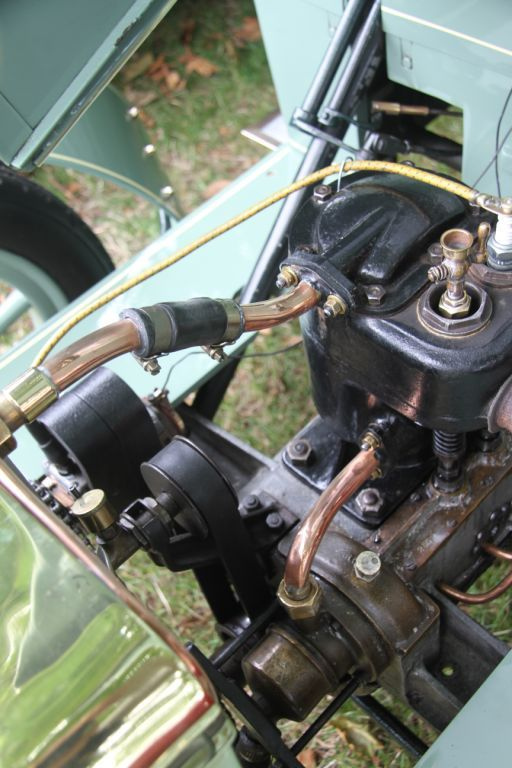 1905 Rover 6 hp open 2-seater single-cylinder 780 cc RACV Great Australian Rally 2011